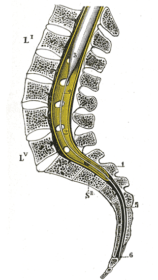 Sagittal section of vertebral canal to show the lower end of the medulla spinalis and the filum terminale. Li, Lv. First and fifth lumbar vertebræ. Sii. Second sacral vertebra. 1. Dura mater. 2. Lower part of tube of dura mater. 3. Lower extremity of medulla spinalis. 4. Intradural, and 5, Extradural portions of filum terminale. 6. Attachment of filum terminale to first segment of coccyx. (Testut.)